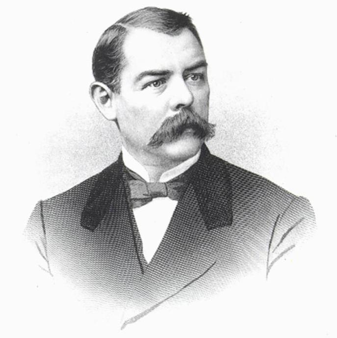 "Albion W. Tourgée, 1870 (Library of Congress)"